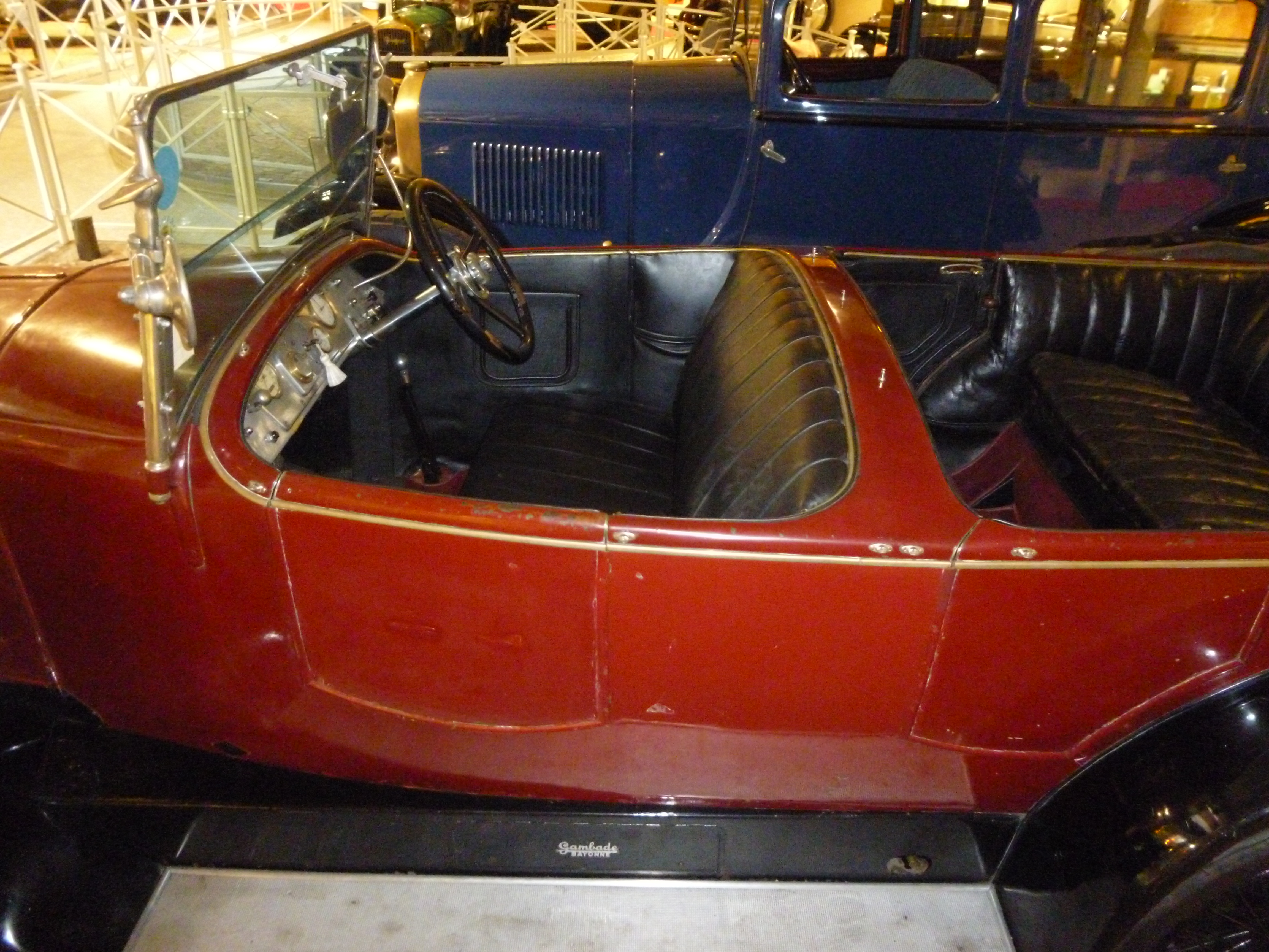 Peugeot type 175 Torpedo Sport